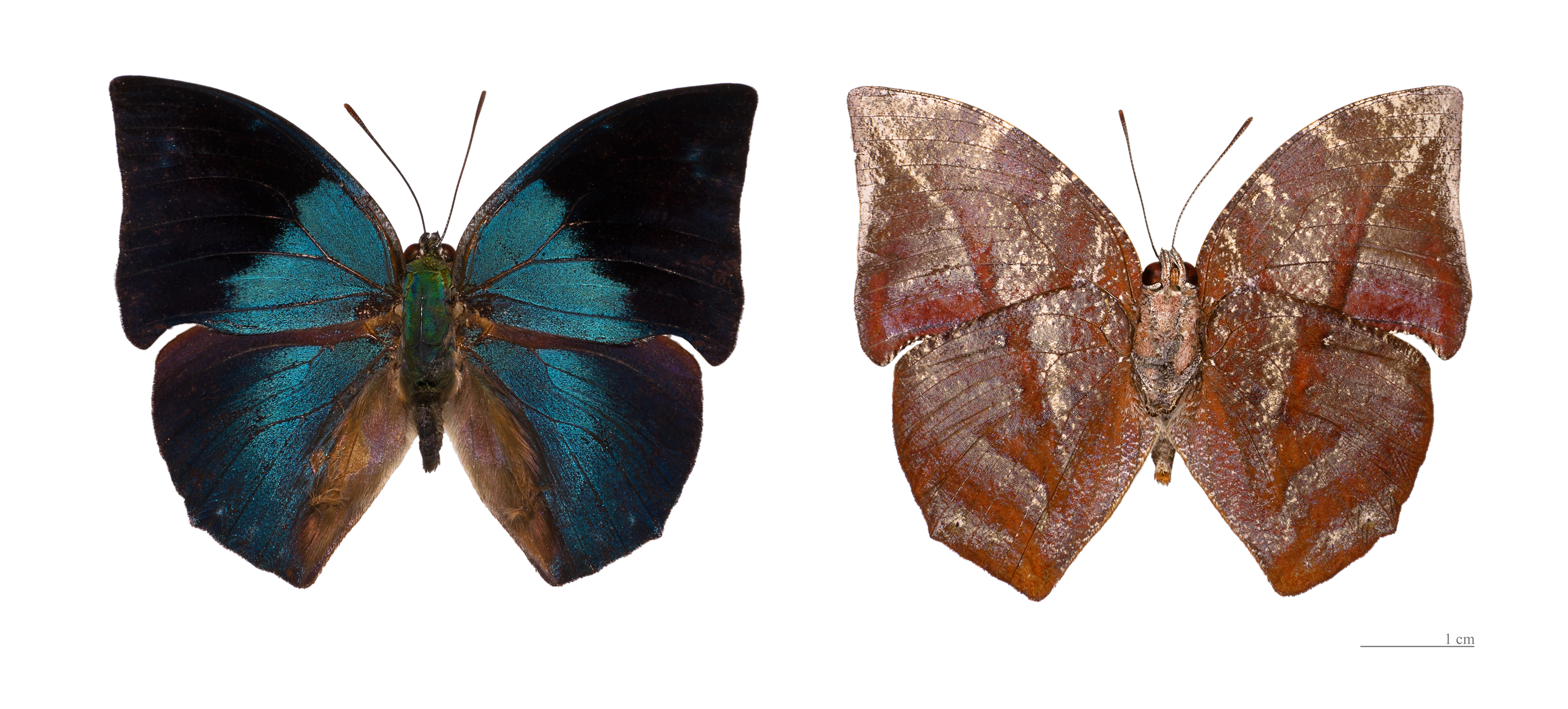 ♂ - Two views of same specimen Locality : Cacao, Crique Baguot, French Guiana